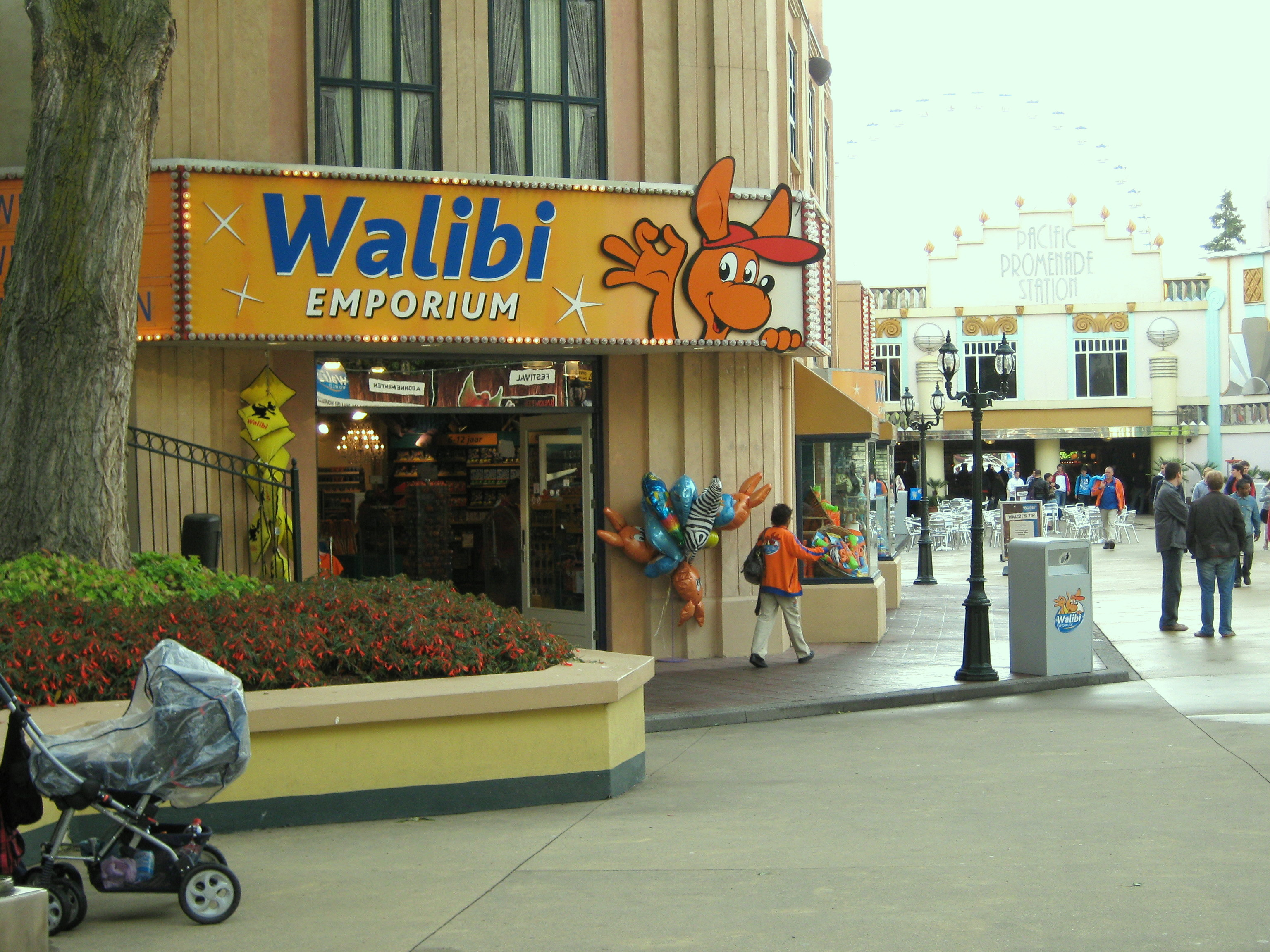 Hollywood The Main Street at Walibi World